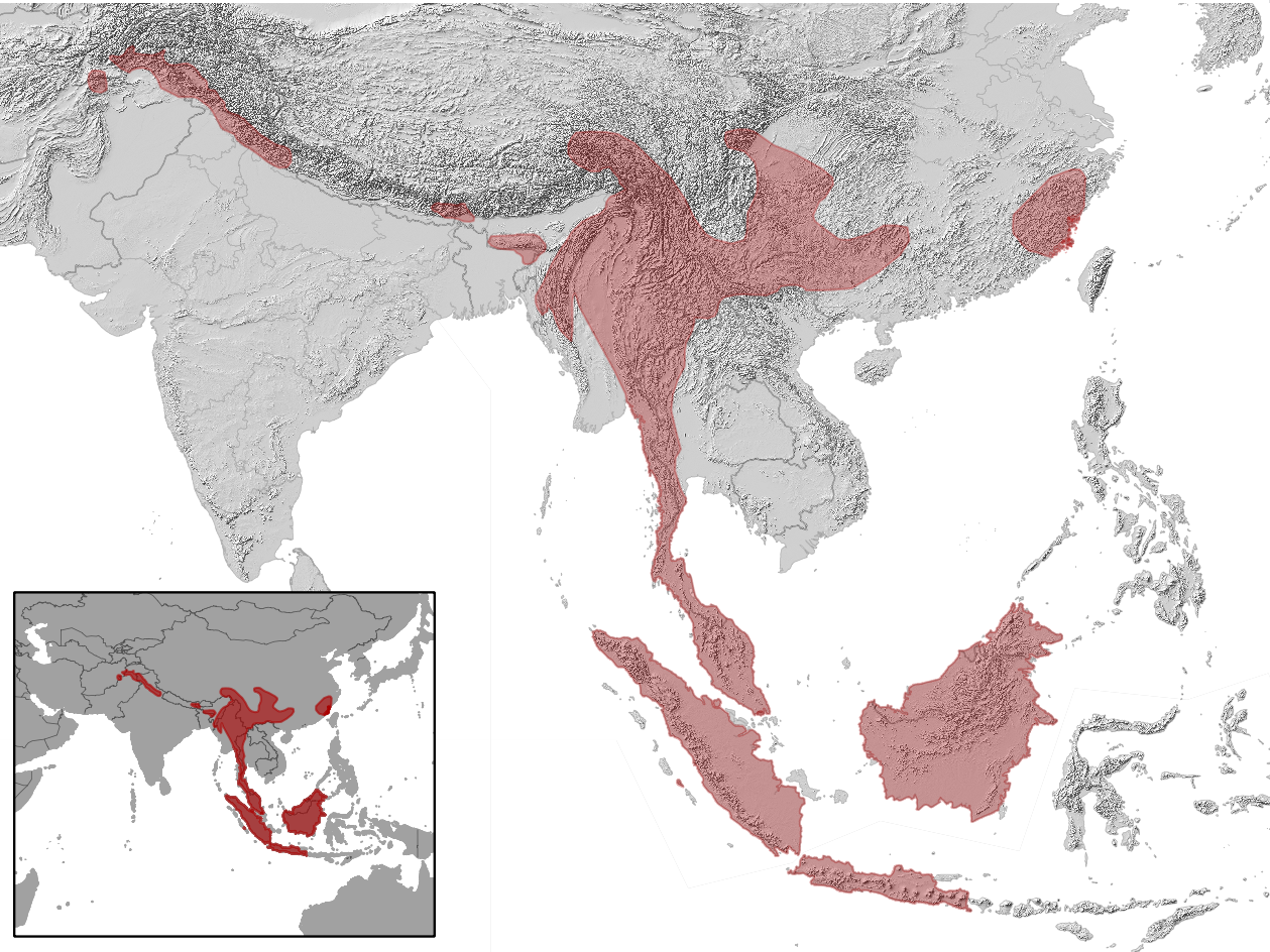 geographic distribution of Petaurista petaurista